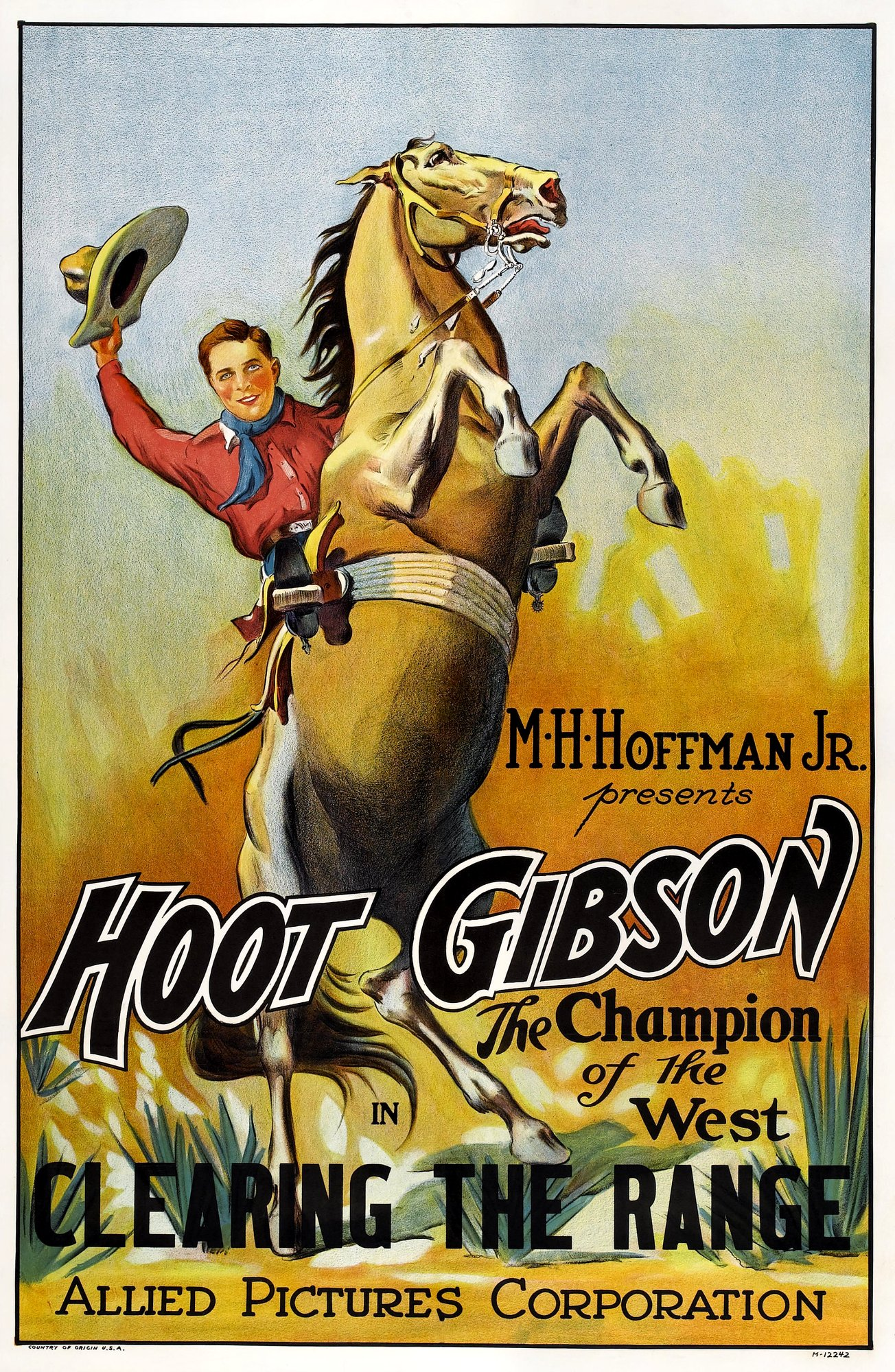 Poster for the 1931 film Clearing the Range. The item has no copyright marks on it as can be seen at links and original upload. At bottom left is Country of origin USA. At bottom right is M-12242-this is probably related to the print job for the poster.